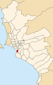 Map of Lima highlighting the Barranco district in Lima.